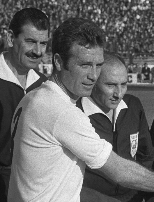 Ion Nunweiller in 1971.